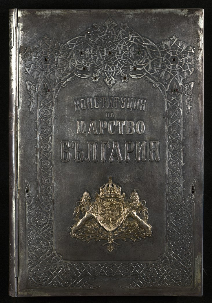 Constitution of Kingdom of Bulgaria, 1911